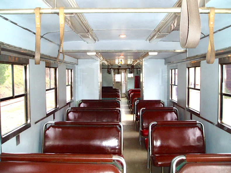 Interior of 400-class Redhen railcar used on suburban rail system in Adelaide, South Australia from the 1950s to the 1990s.